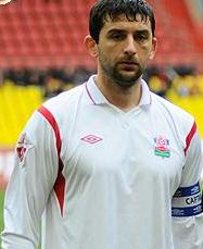 Miodrag Džudović playing for PFC Spartak Nalchik in 2010.